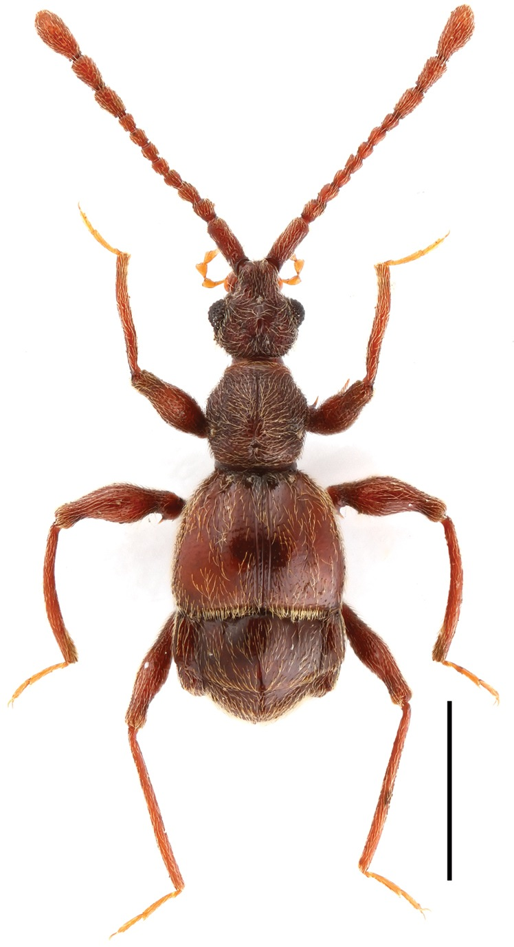 Male habitus of Pselaphodes maoershanus. Scale: 1.0 mm.